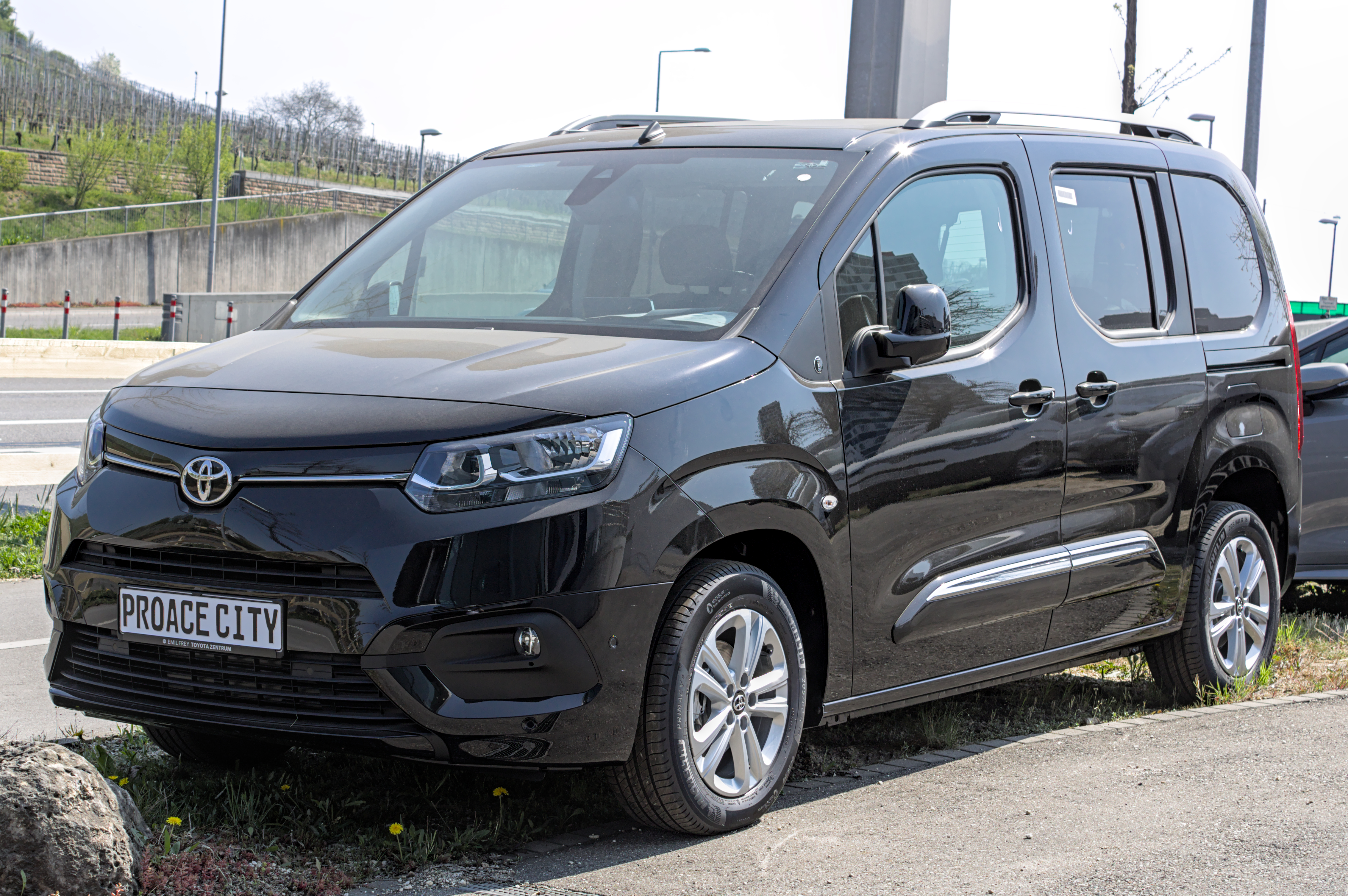 Toyota_ProAce_City in Stuttgart